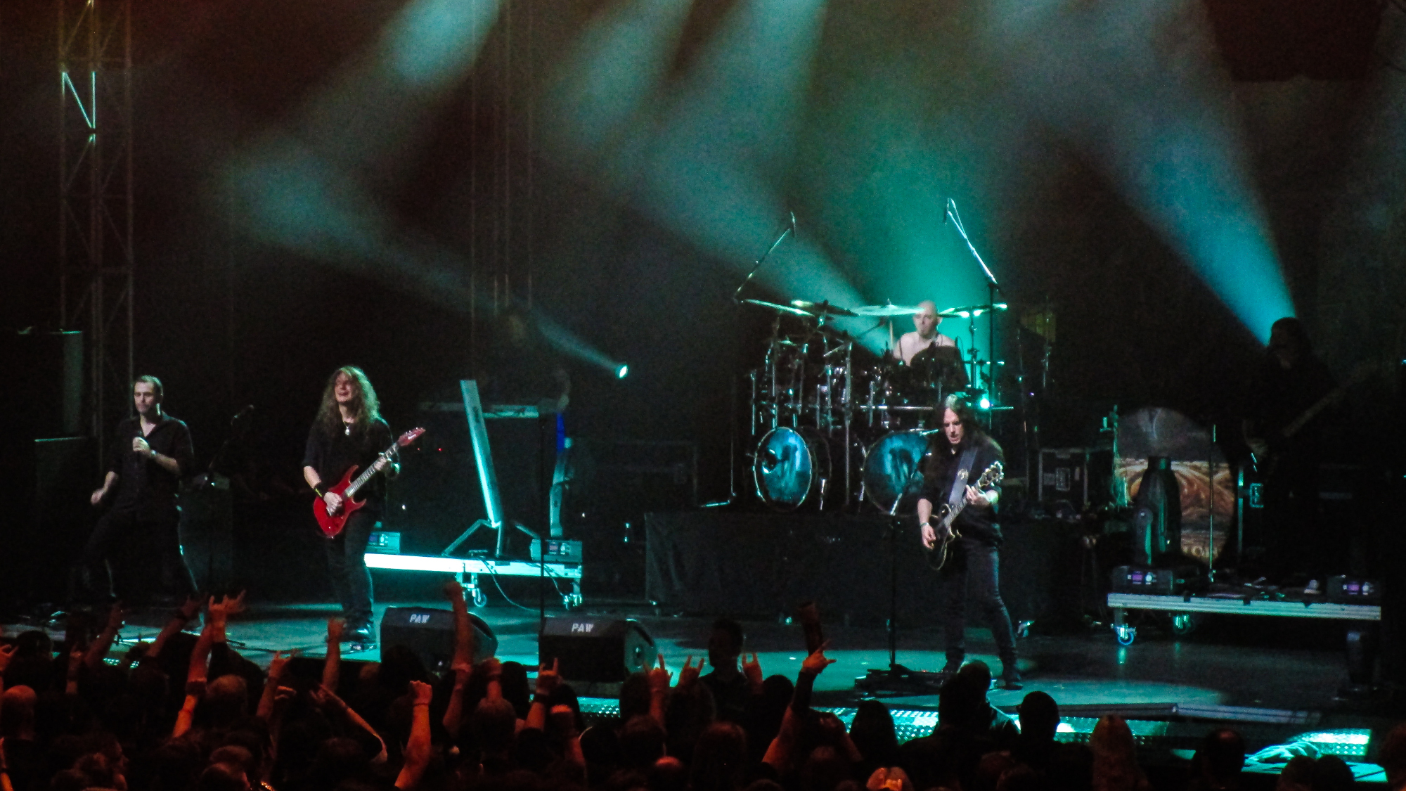 Blind Guardian on the Christmas Bash Festival in Geiselwind in Germany, 2016